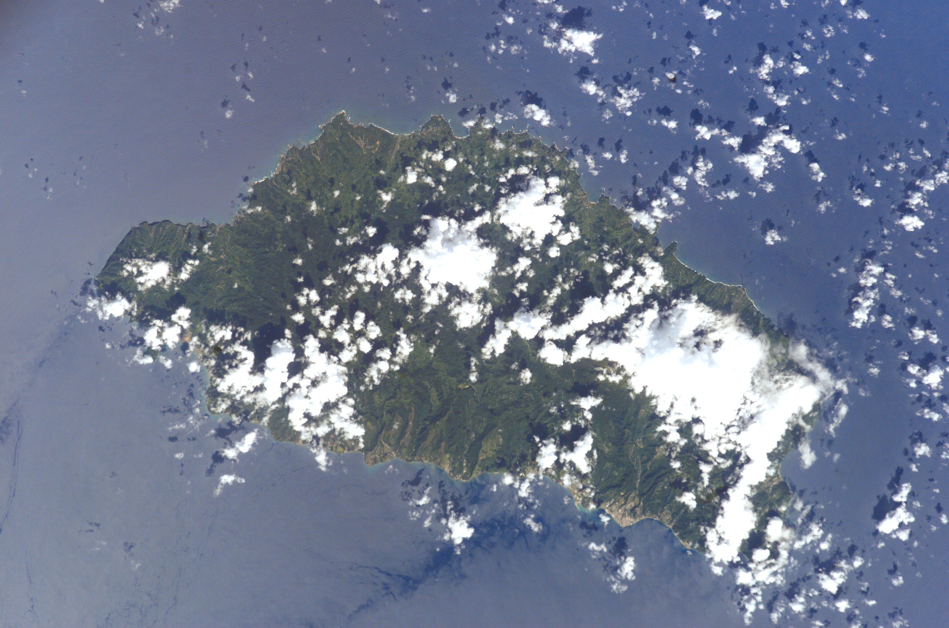 Island of Dominica in the Caribbean, taken from ISS